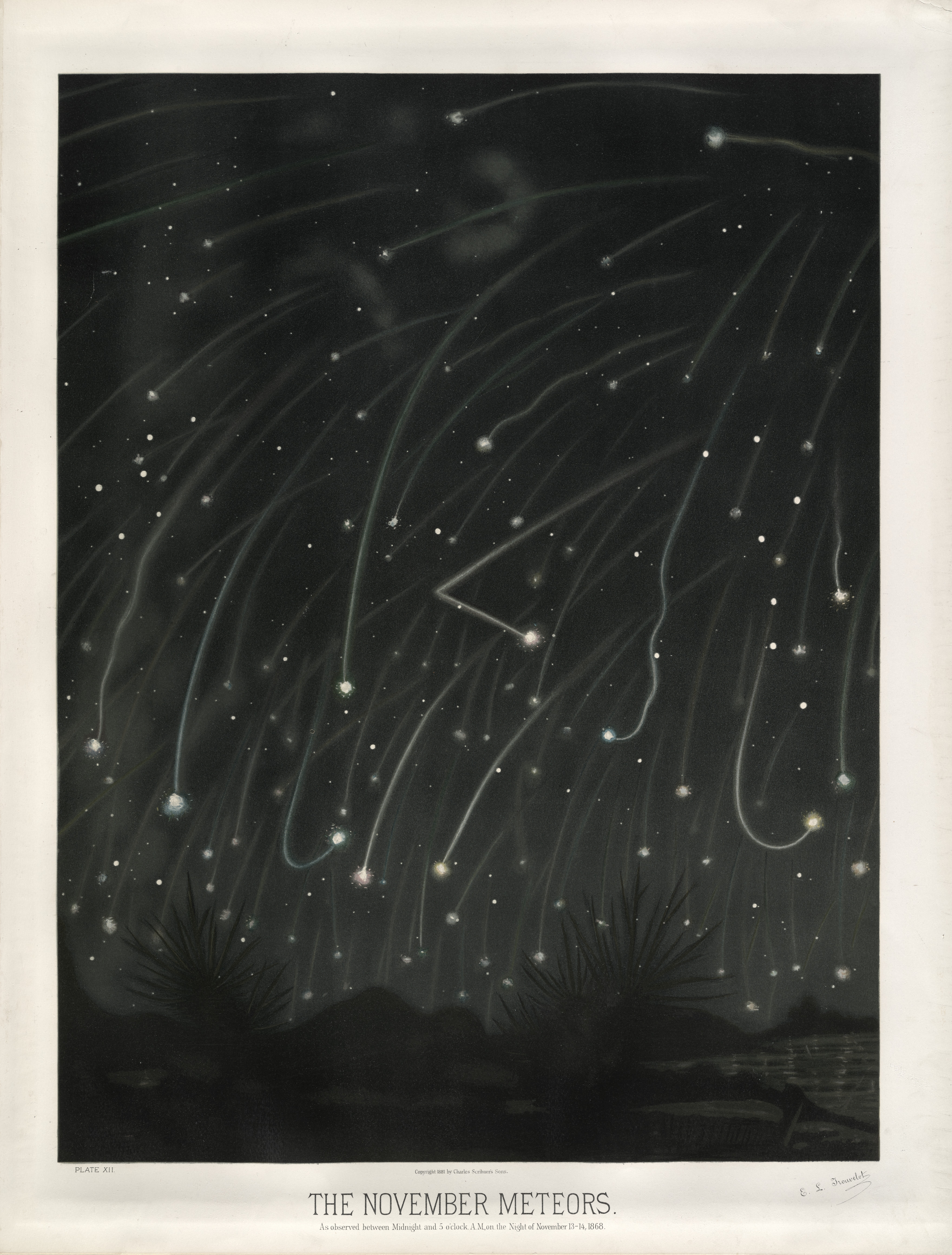 The November meteors. As observed between midnight and 5 o'clock A.M. on the night of November 13-14 1868. (Plate XII from The Trouvelot Astronomical Drawings 1881-1882)